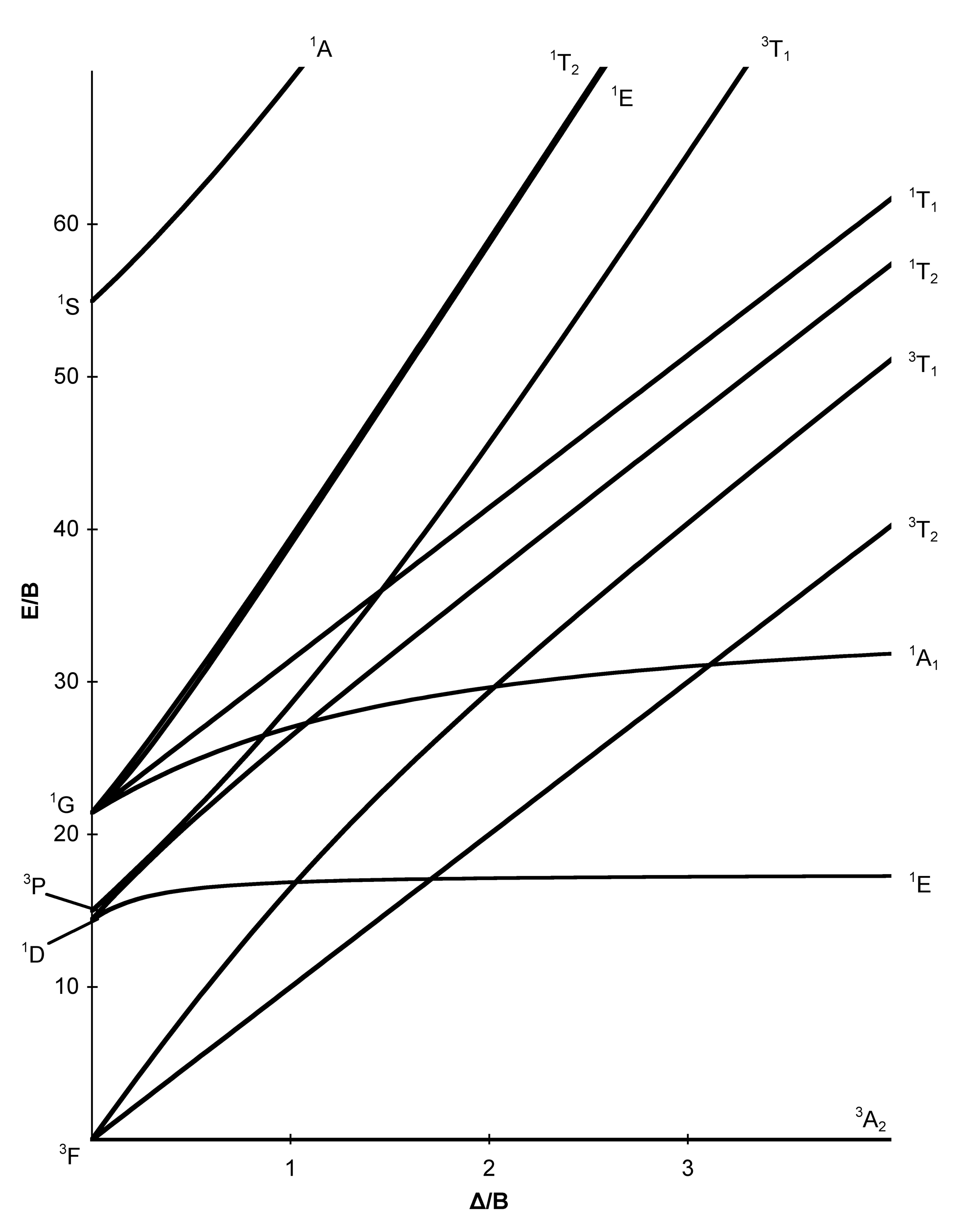 A Tanabe-Sugano diagram for the octahedral d8 electron configuration.